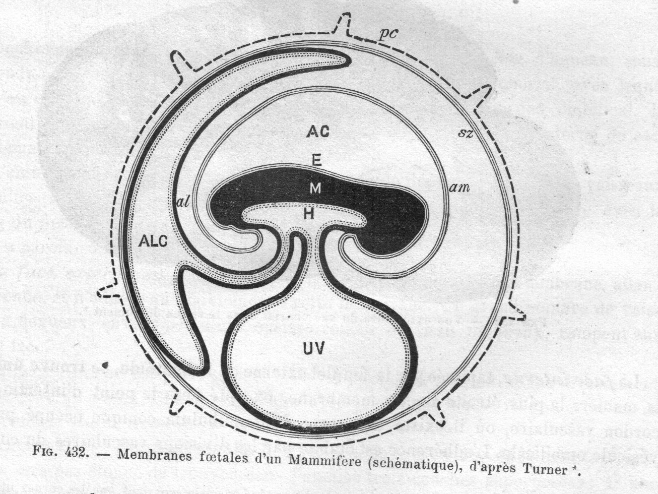 The extraembryonic membranes of mammals.